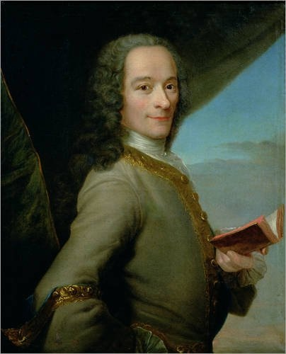 Depicted person: François-Marie Arouet (1694–1778), known as Voltaire, French Enlightenment writer and philosopher